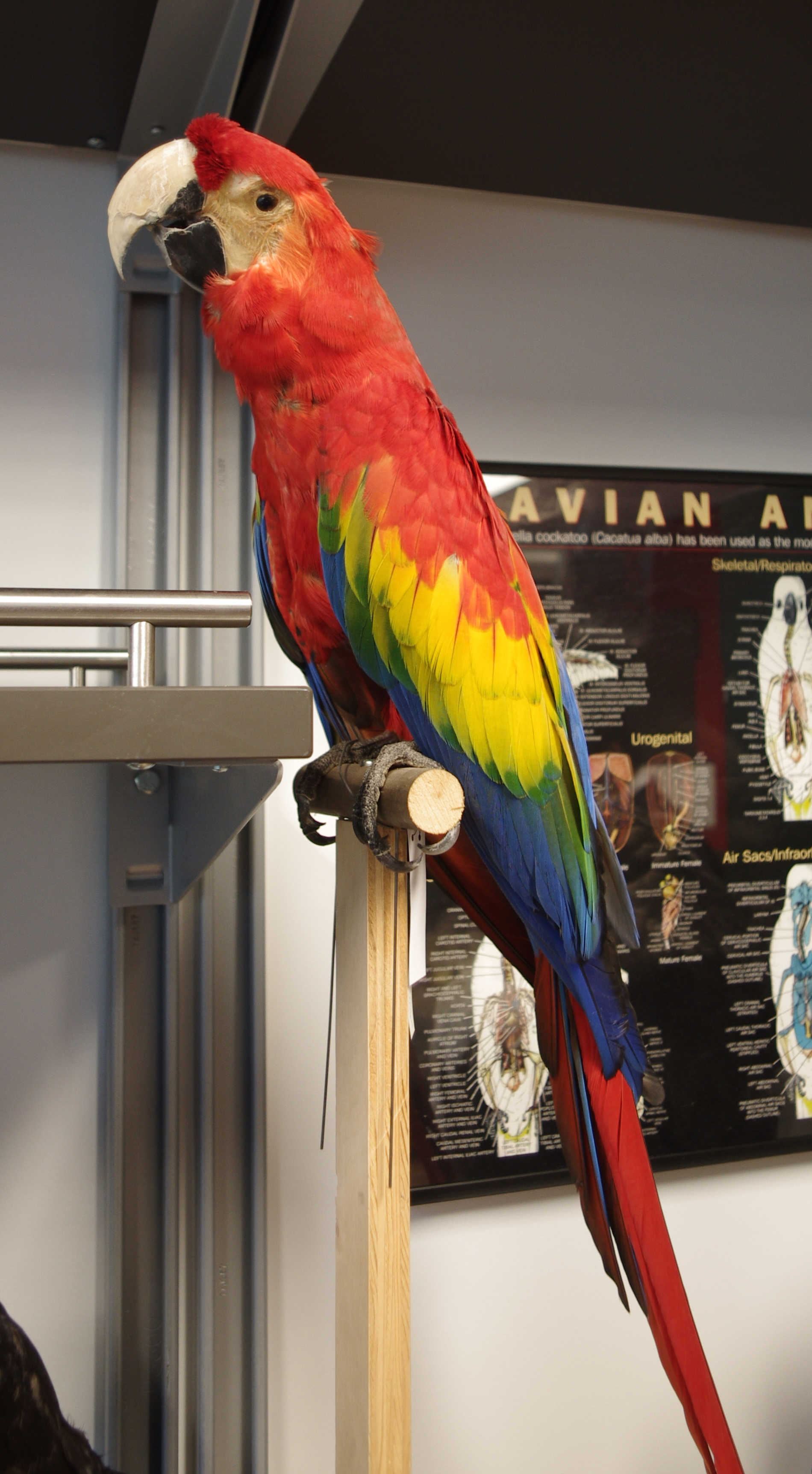 Taxidermied Scarlet Macaw (Ara macao cyanopterus) at the Beaty Biodiversity Centre